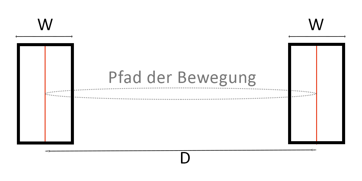 Schematic of the original Fitts' Law task. The graphic has a German caption.